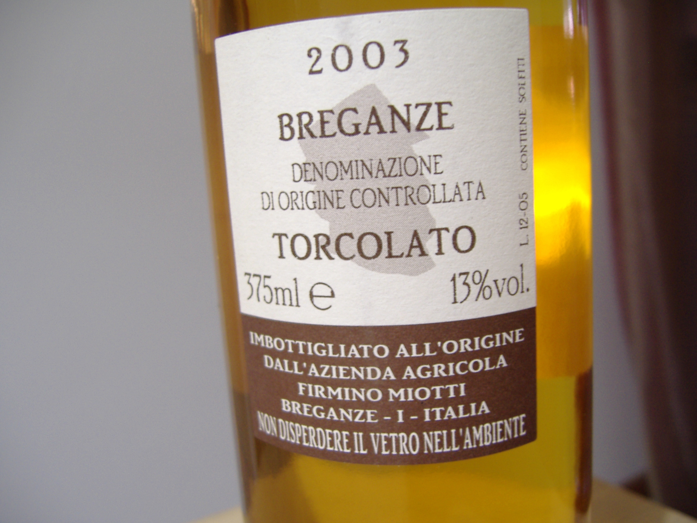 Italian wine from the Veneto made from the Vespaiola grape in a dessert passito straw wine style